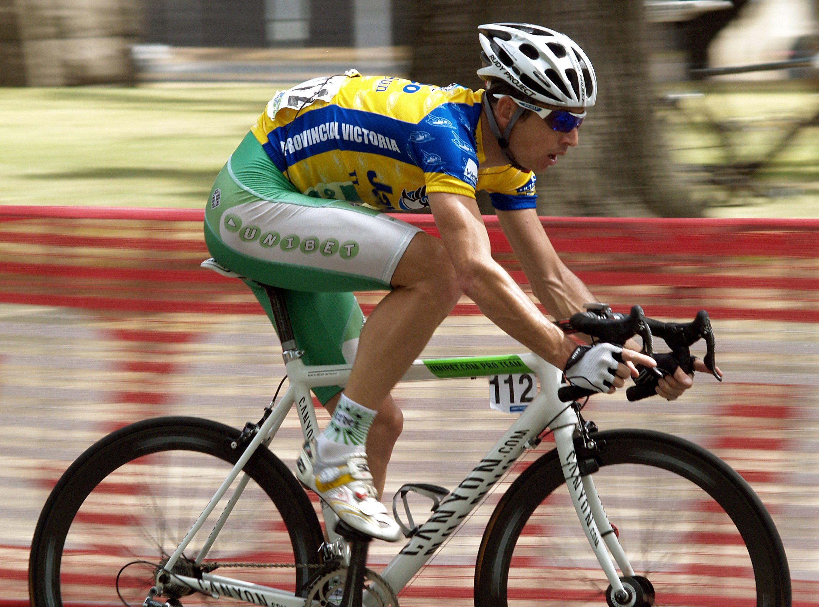 Australian cyclist Matt Wilson , wearing the leader's yellow jersey, during Stage 7 of the 2007 Herald Sun Tour, Melbourne, Australia.